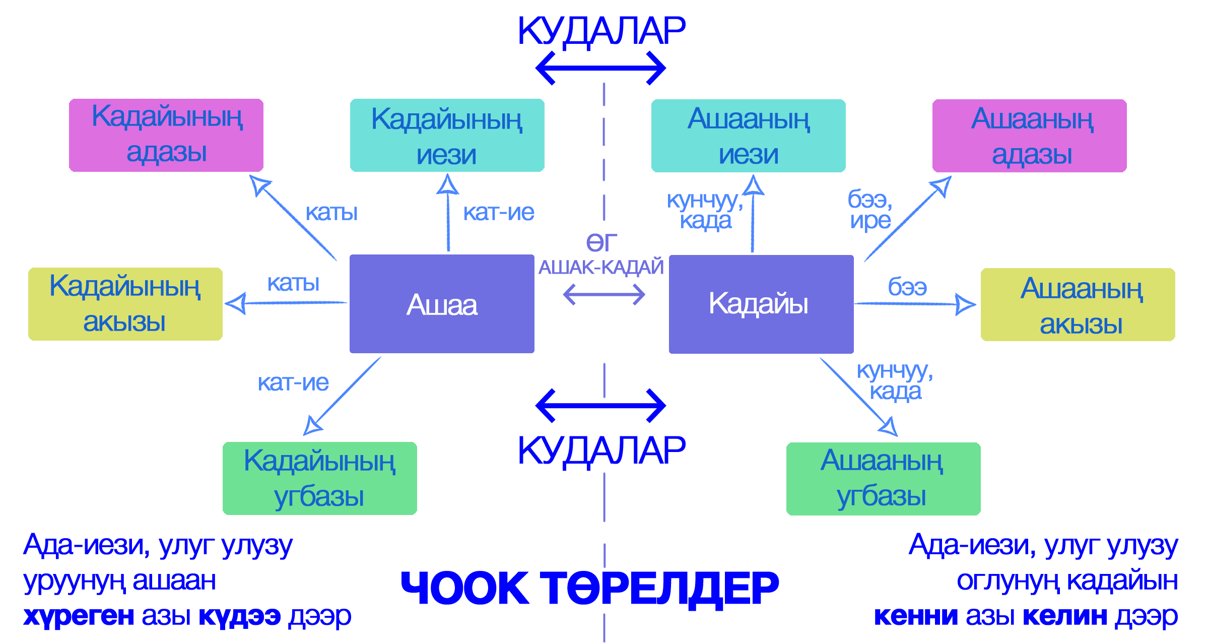 Family in tyvan language Тыва дыл: Өг-бүлениң чоок төрелдери